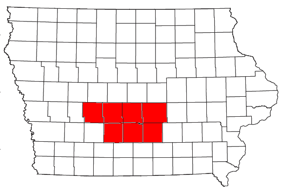 Locator map of the Des Moines-Newton-Pella Combined Statistical Area in the central part of the U.S. state of Iowa.